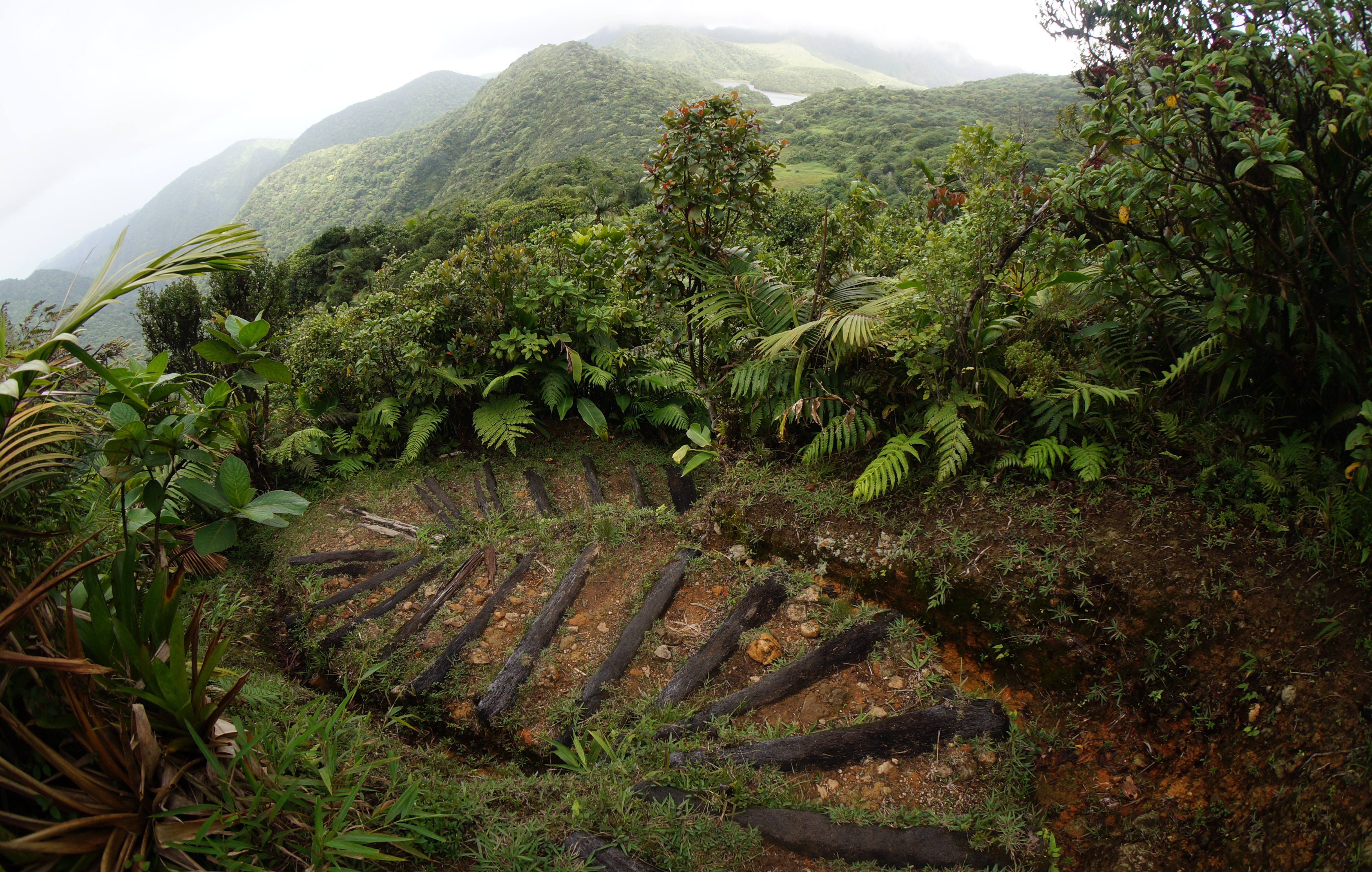 Hiking trail in the Morne Trois Pitons National Park on the island of Dominica. More freely usable Dominica Travel Images. Please credit and link to Dominica Travel when using these images.